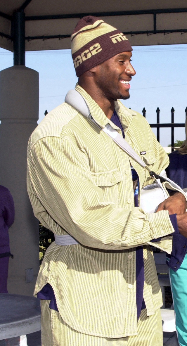 Miami Dolphins Linebacker Derrick Rodgers DF-SD-04-00012 crop.JPEG presents 100 tickets to Brigadier General (BGEN) Charles E. Stenner, USAF, US Southern Command, for the Miami Dolphins playoff game Sunday with the Baltimore Ravens, the defending NFL champions. The tickets were made available under the NFL's "Everyday Hero" program and will be handed out to the troops at SOUTHCOM. The Dolphins also brought four (two in the background) cheerleaders who signed autographs and handed out Dolphins calendars. ID: 020109-F-3751R-001